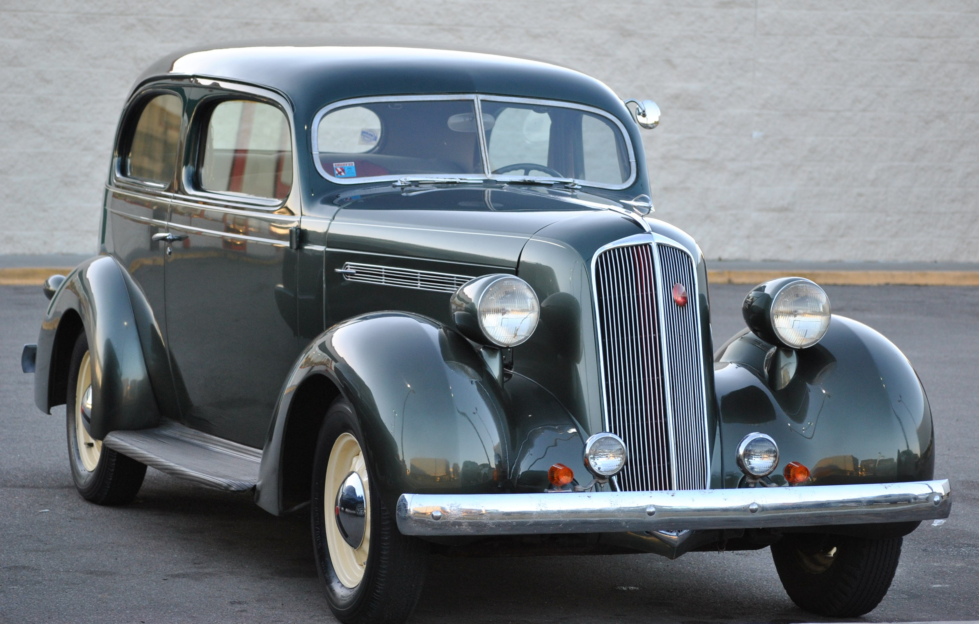 1936 Studebaker Dictator SixSt. Regis Custom Brougham 2-Door Sedan